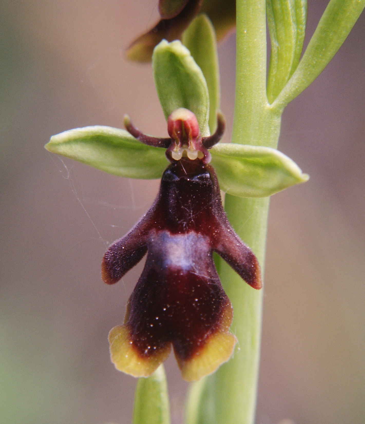 Ophrys insectifera, Tauberland, Germany